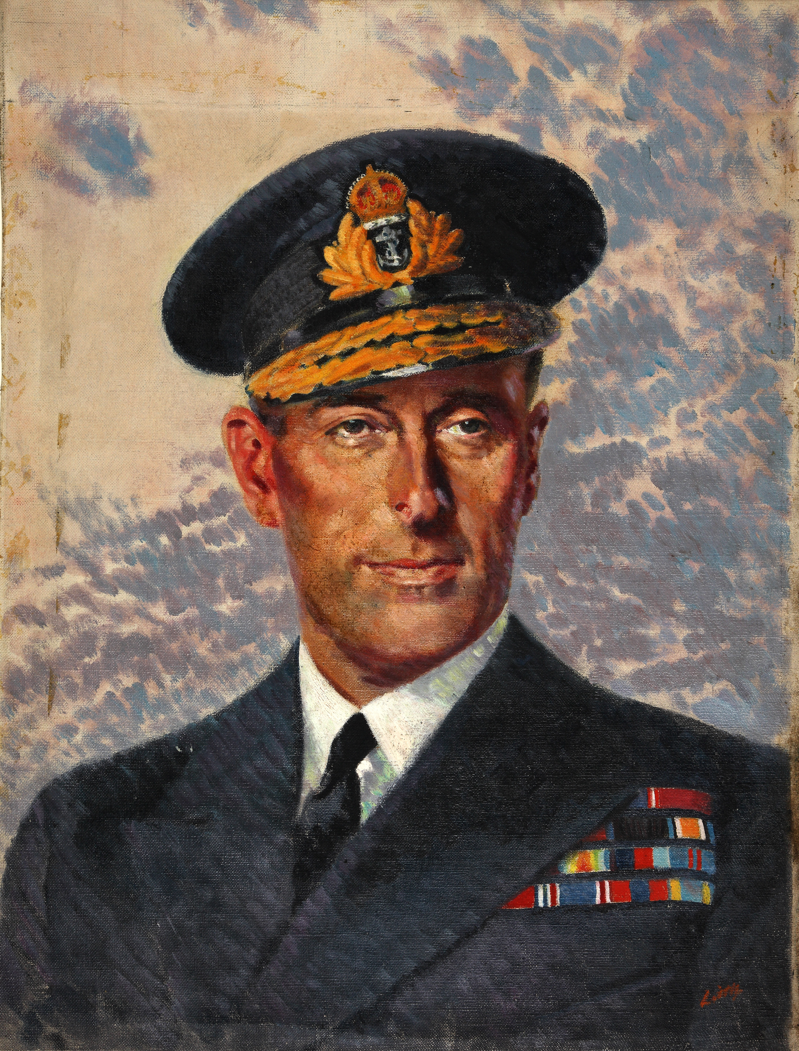 Admiral Lord Louis Mountbatten Depicted person: Louis Mountbatten, 1st Earl Mountbatten of Burma